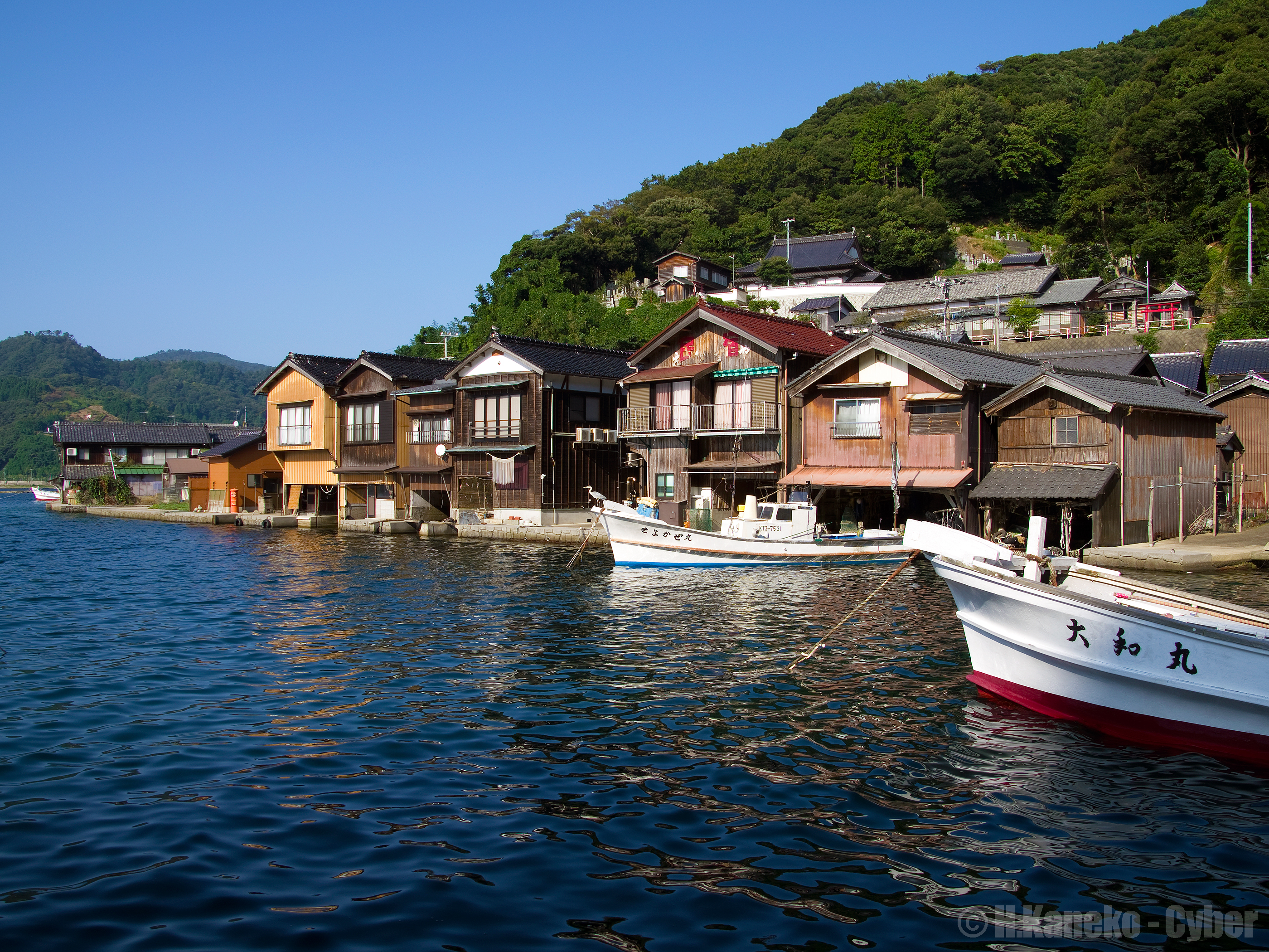 Funaya houses : Ine-cho, Kyoto Prefecture, Japan.